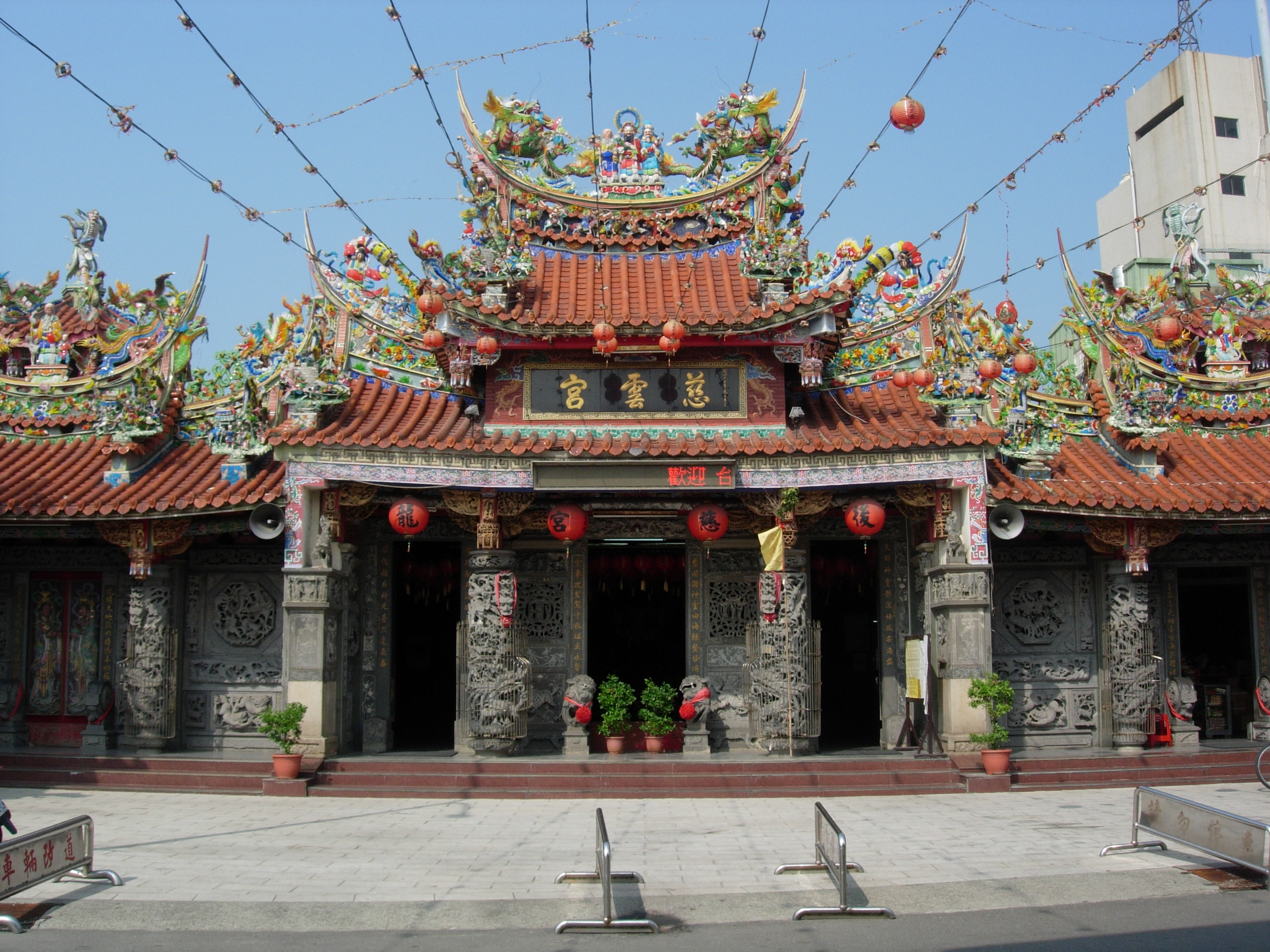 Houlung Tzuyun Temple